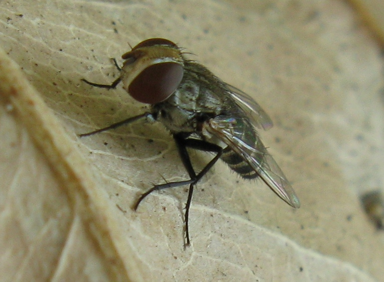 Craticulina is a genus of flies in the family Sarcophagidae, but with unusual habits for Sarcophagids; They lay their eggs (larvae actually) on the prey of certain hunting wasps, usually fly-hunters, but this species parasitises a South African Bee-pirate (Philanthus diadema?). The fly is much smaller than the wasp, about 5mm long.